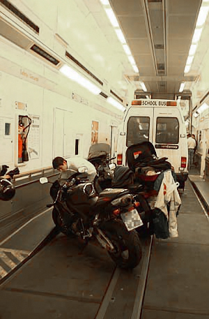 Crossing with Le Shuttle Source: Taken 7 March 2004 Photographer: Bleiglass Equpiment: Nikon D1, 24-120mm (24mm/F3.5/ 1/25sec), without flash, without tripod License status: GNU FDL